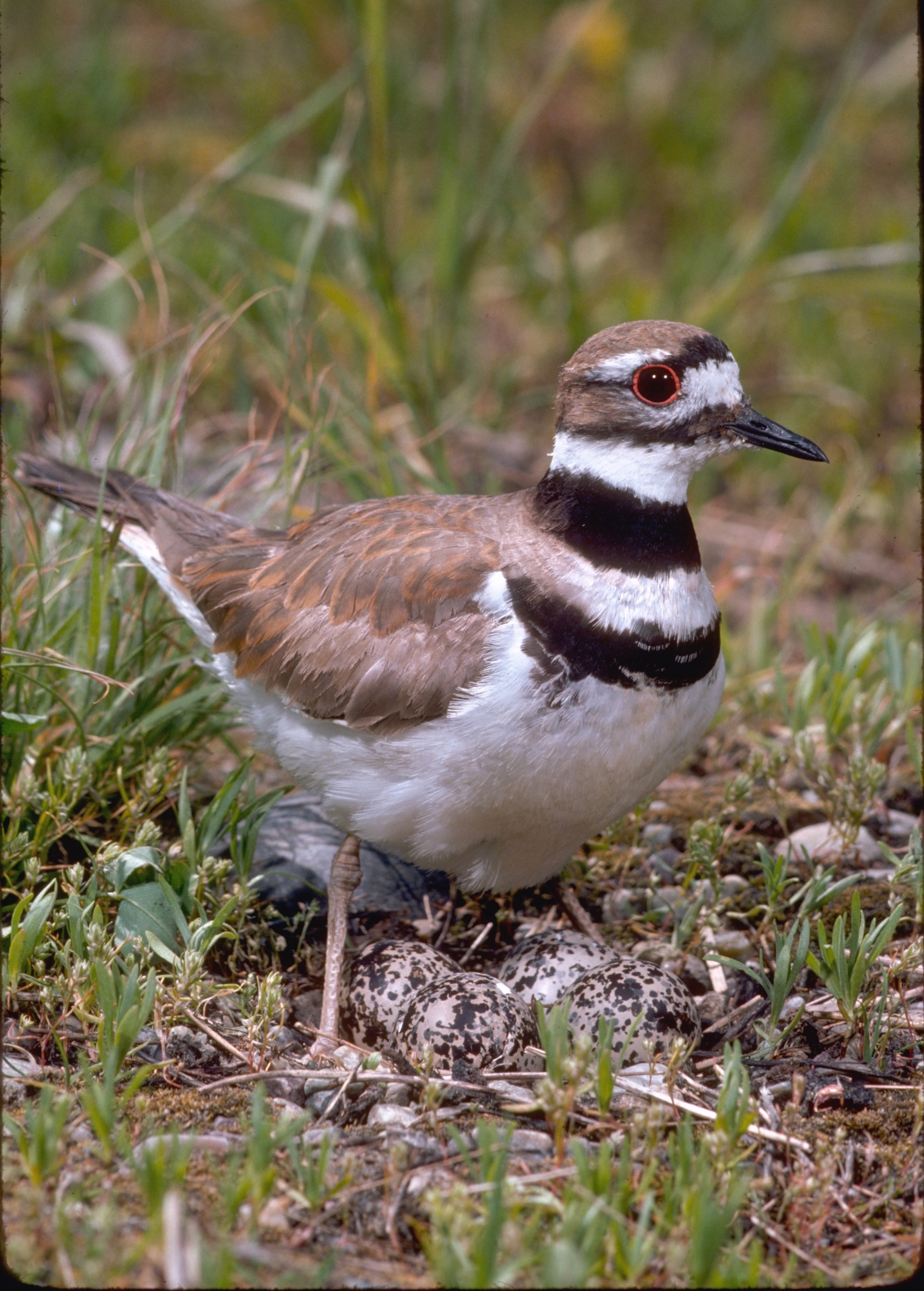 This living showcase of the grandeur of the Rocky Mountains, with elevations ranging from 8,000 feet in the wet, grassy valleys to 14,259 feet at the weather-ravaged top of Longs Peak, provides visitors with opportunities for countless breathtaking experiences and adventures.